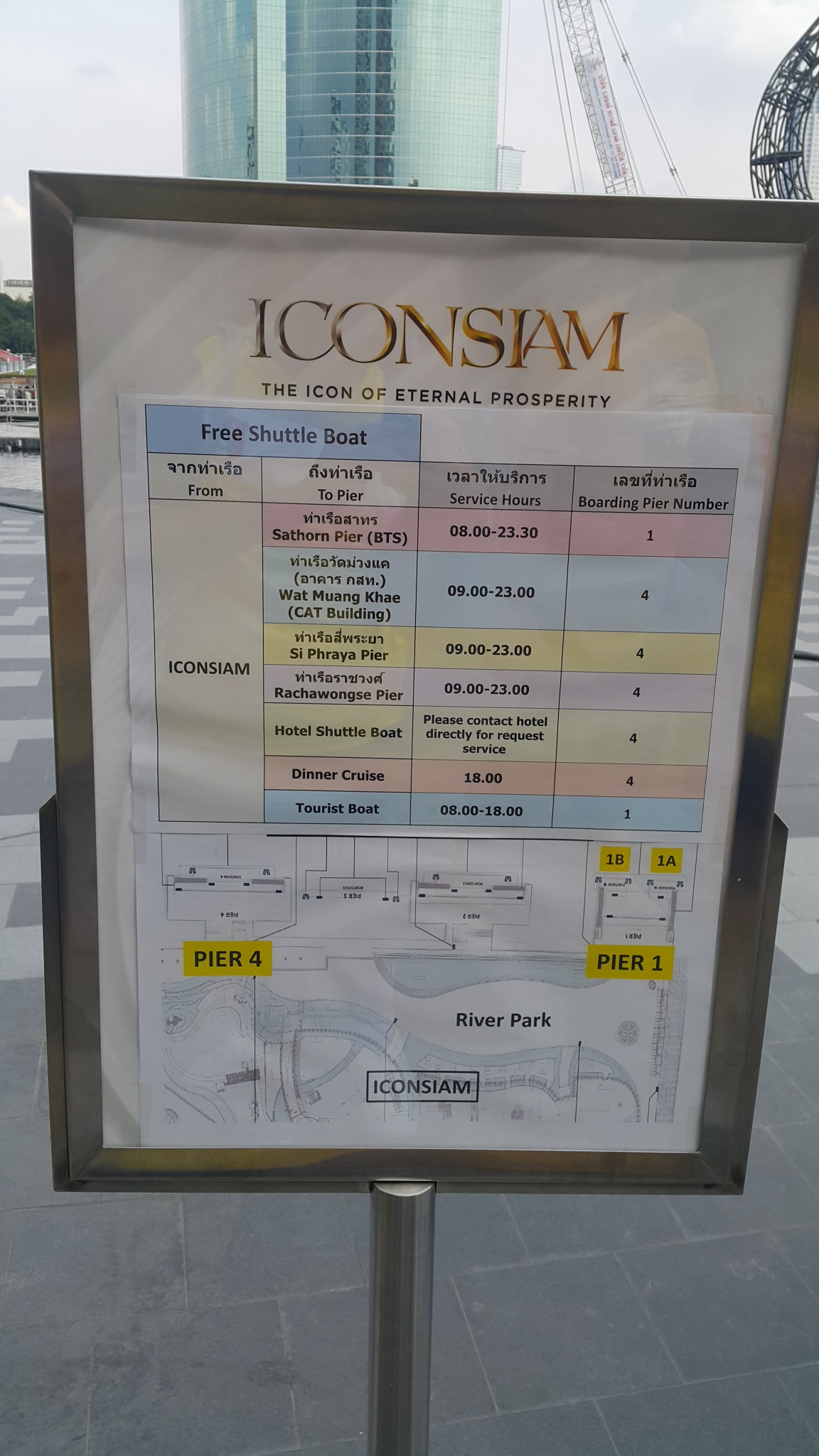 ICONSIAM information board about its public ferry